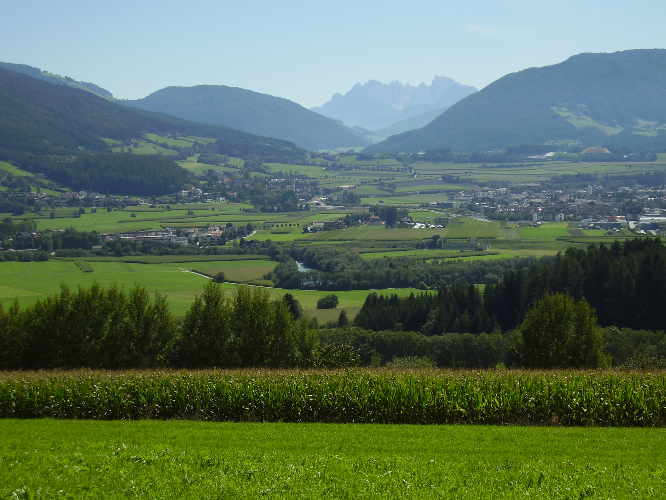 View eastwards of the Pustertal from St. Georgen (Bruneck) with the Pragser Dolomites